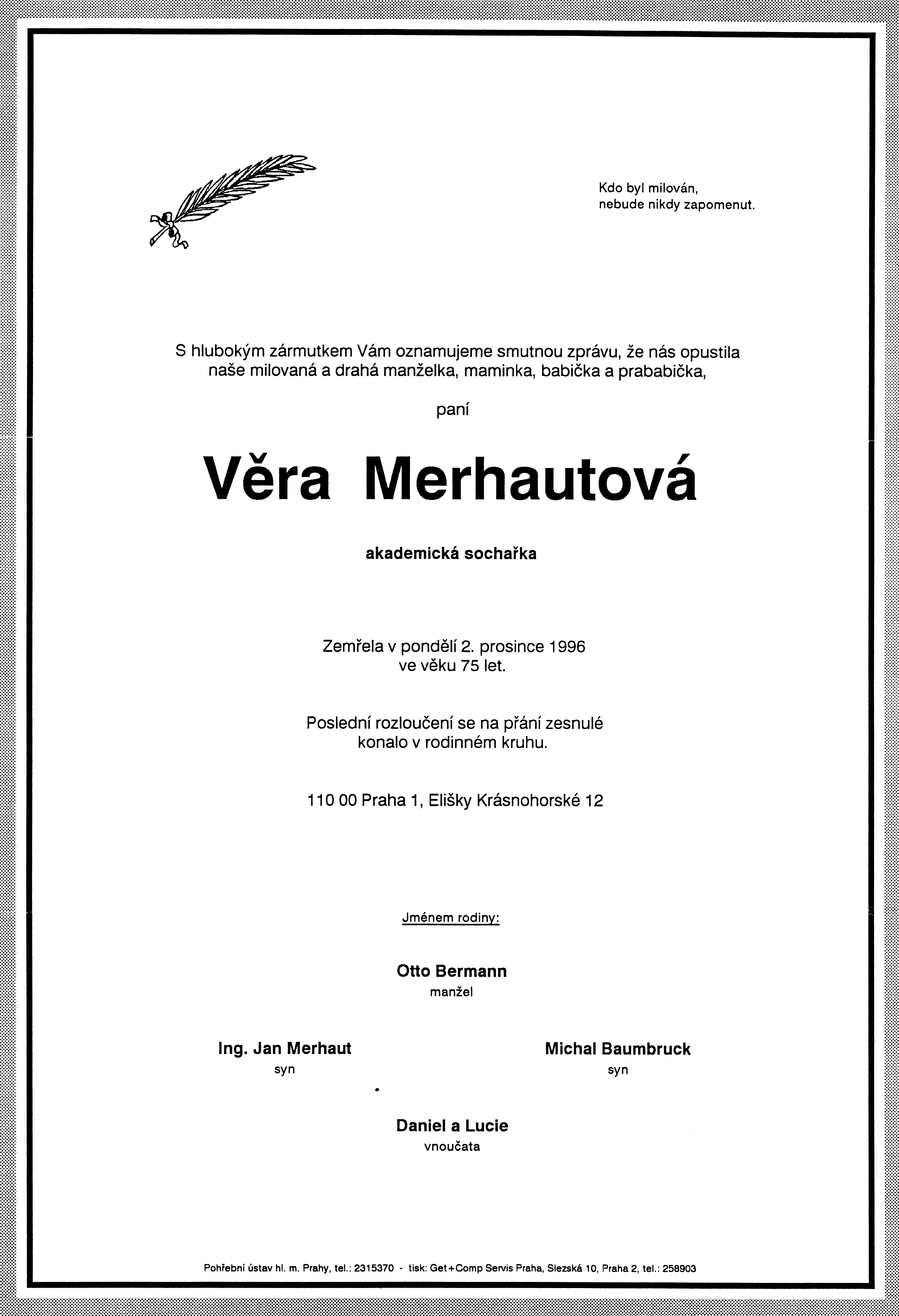 Notification of the death of Věra Merhautová (* 1921 - † 1996), the Czech academic sculptor (woman).